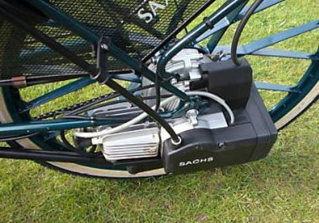 Sachs Saxonette Classic MY 1998 - Engine